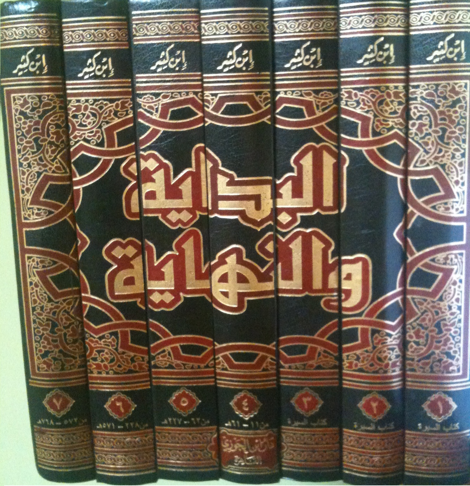 AlbidayaWalnihaya ja